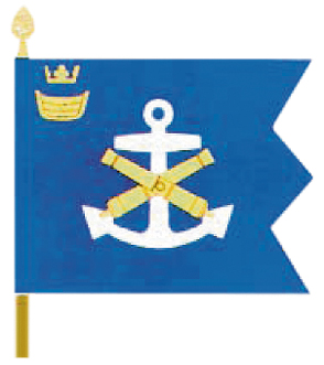 The Colour of Gulf of Finland Naval Command, Finnish Navy. The main emblem is the same as with the Archipelago Sea Naval Command: anchor overlaid by cannons, symbolizing fleet and coastal artillery. The minor emblem features the crowned boat from the coat-of-arms of Helsinki, the former headquarters city of the unit.